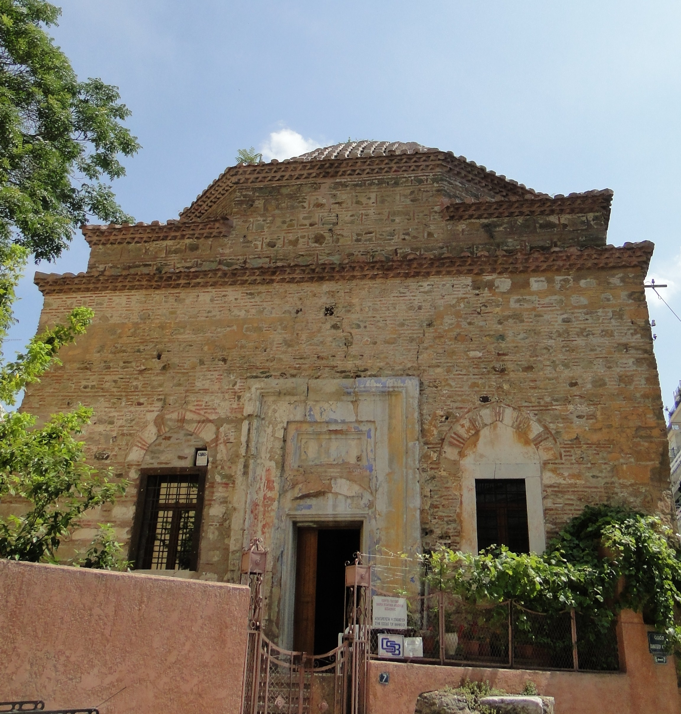 The Ottoman-era Pasha Hamam in Thessaloniki.